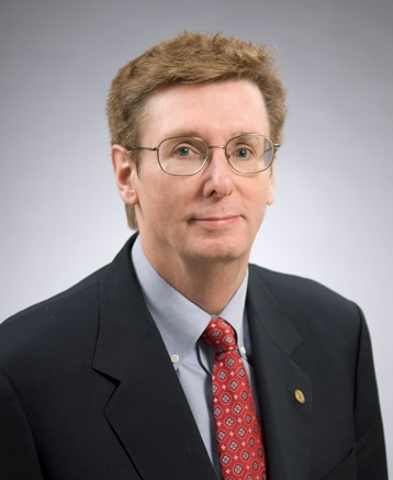 Cropped image of Curtis Carlson